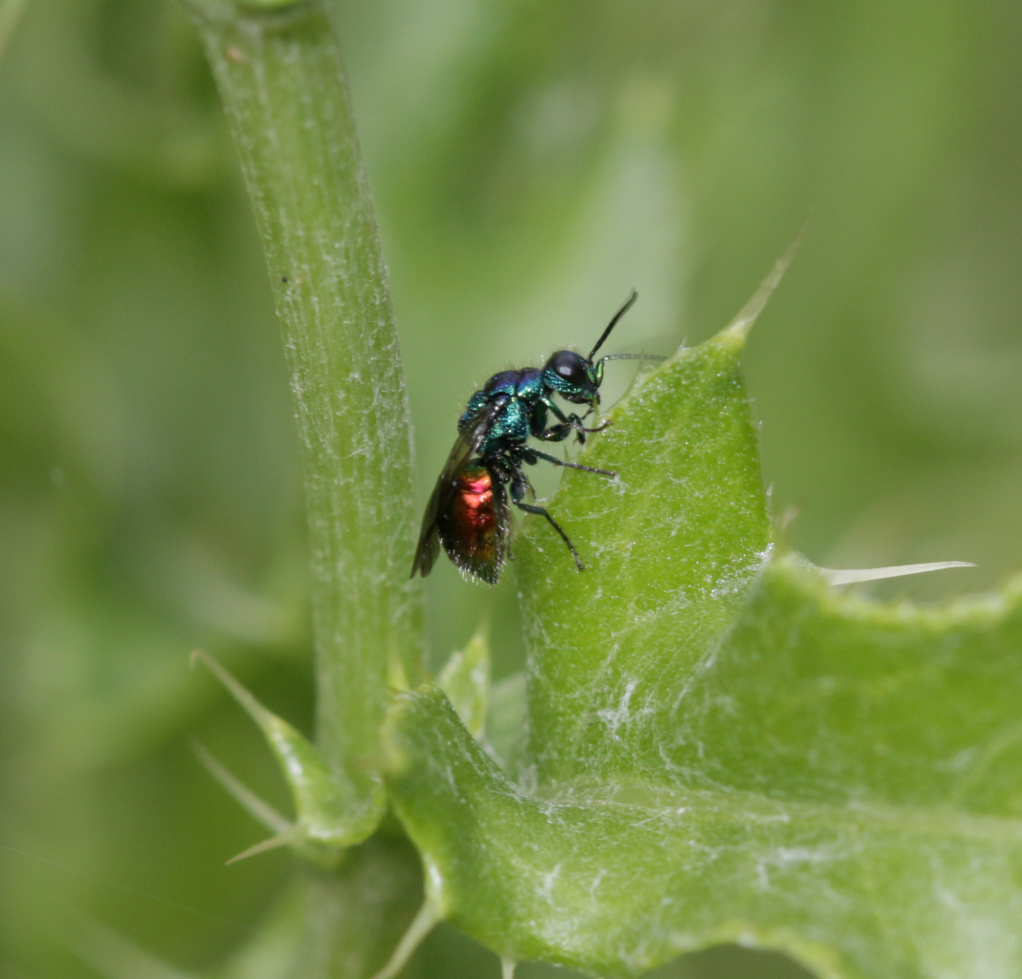 Musselburgh, East Lothian, Scotland